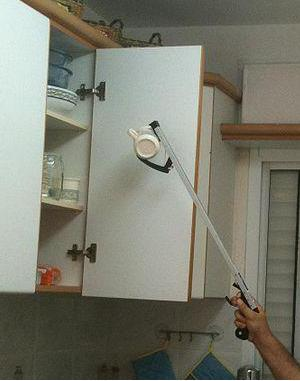 Reacher, an Assistive Technology device for daily living. Manufactured by Yad Sarah, Israel